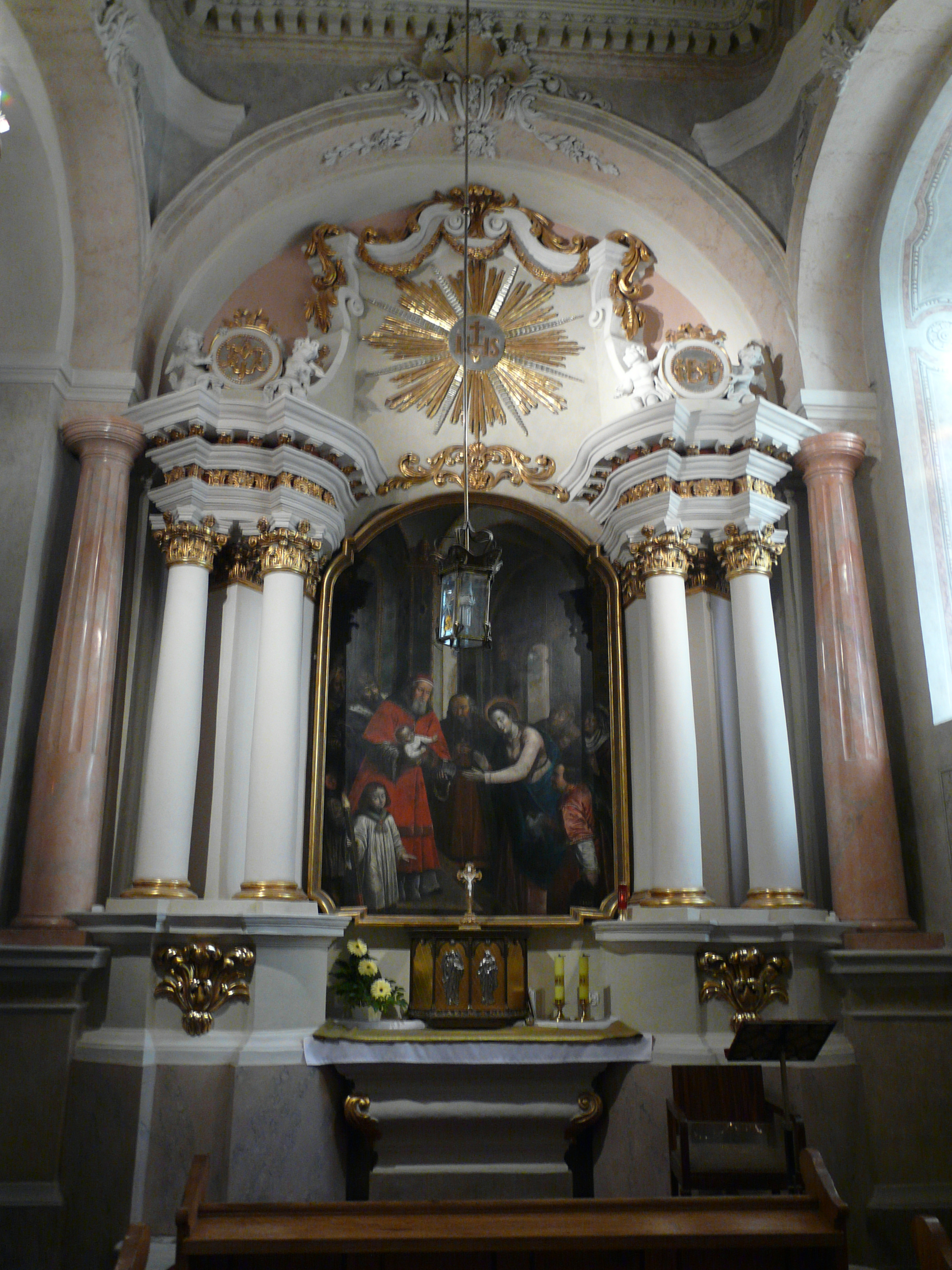 Gniezno Cathedral - inside. Gniezno, Poland